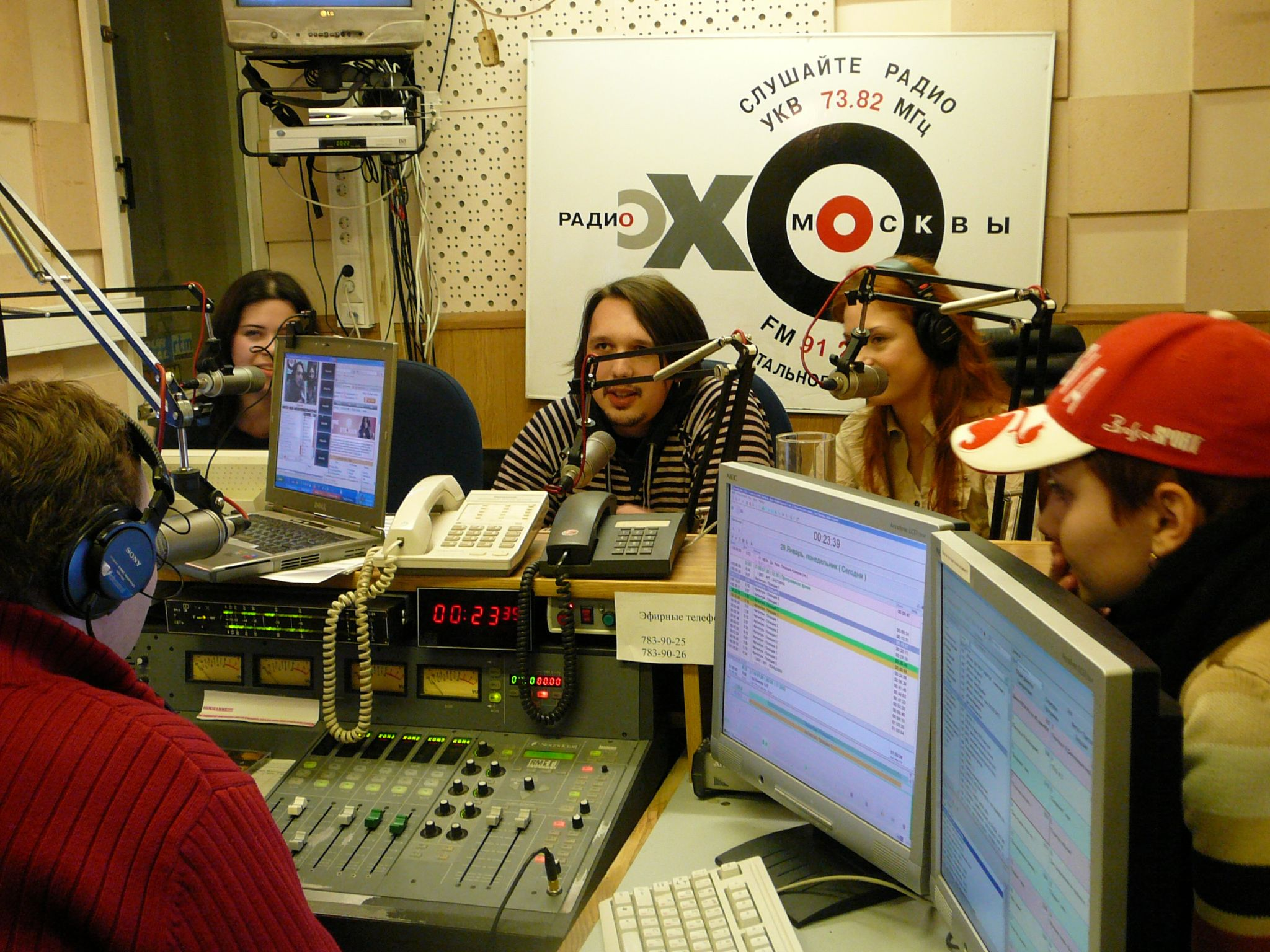 Old studio.